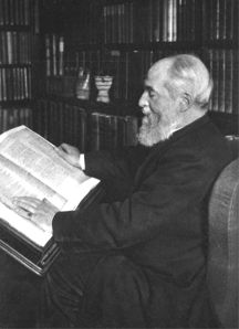 Henry Barclay Swete (1834-1917)